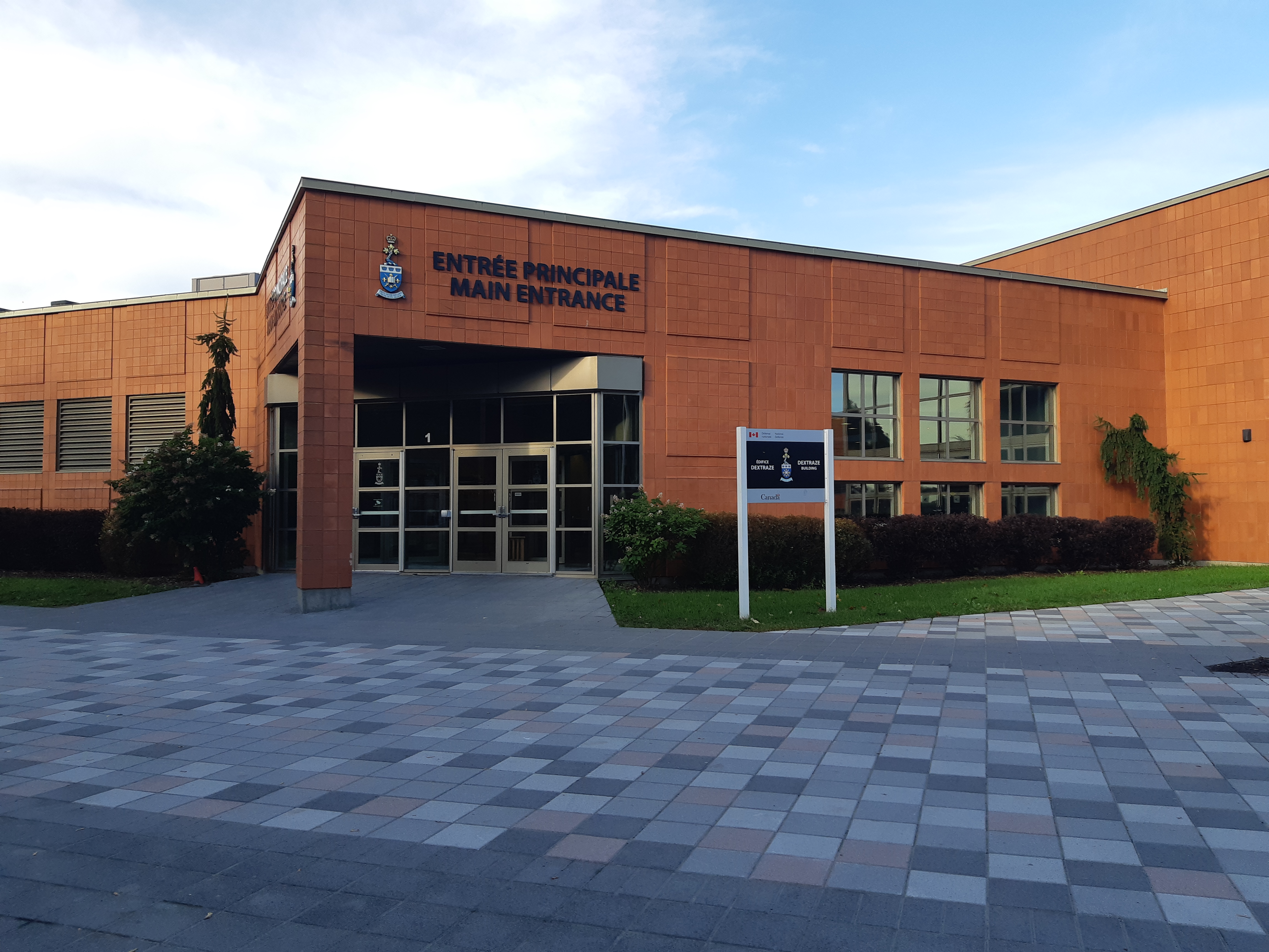 Dextraze Mess at RMCSJ